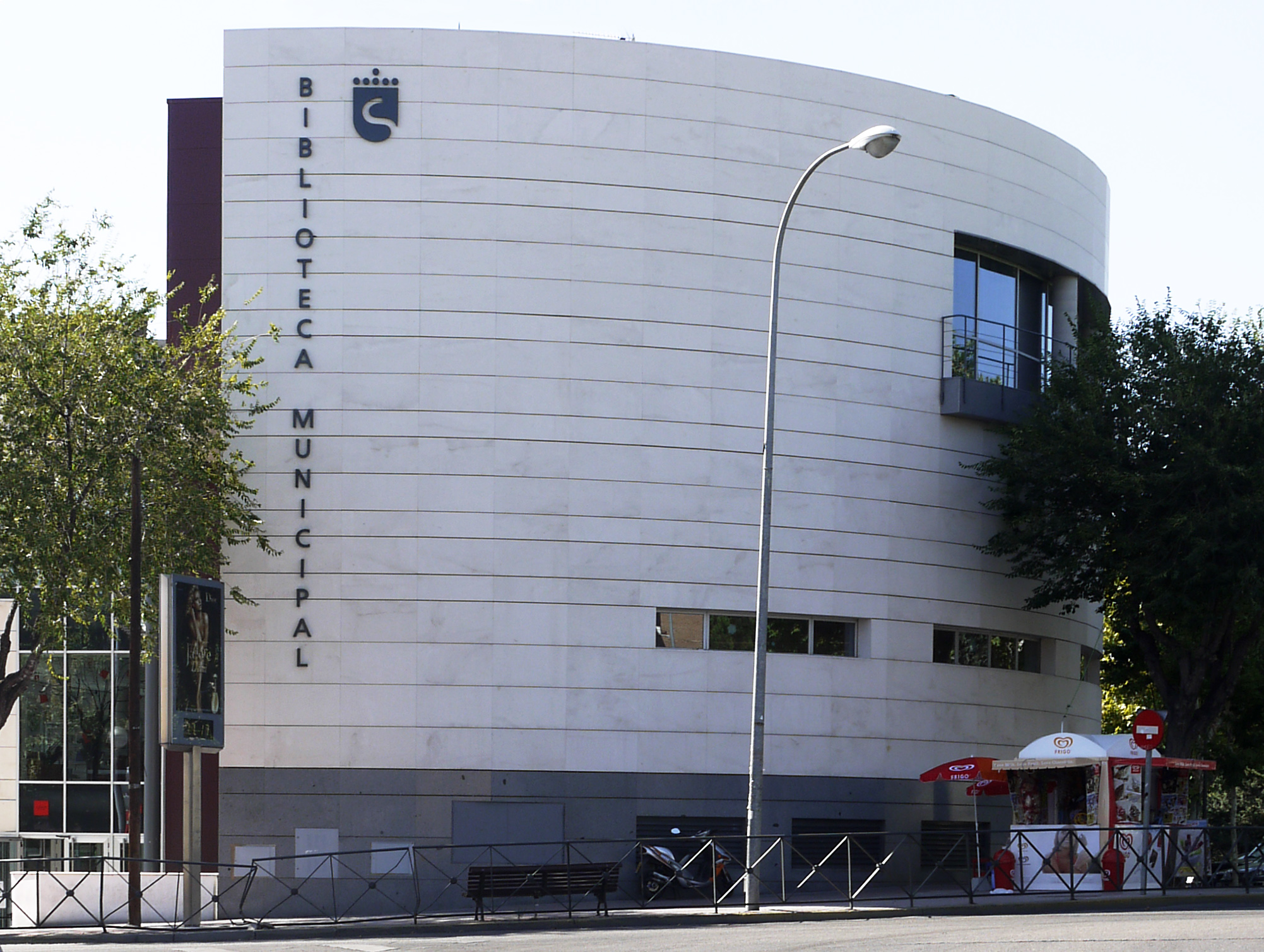 "Central" public library in San Sebastián de los Reyes, Comunidad de Madrid, Spain.